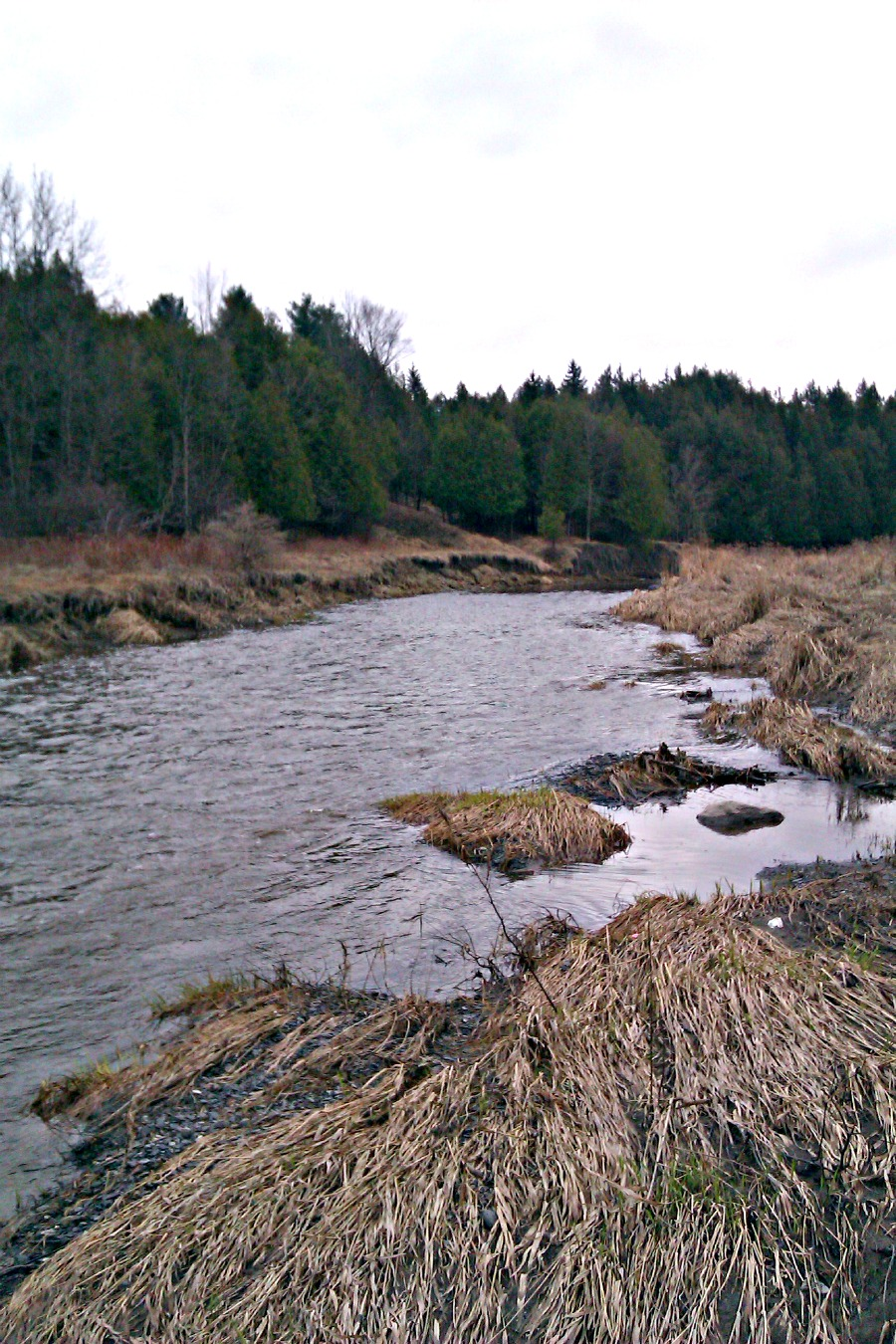 A creek that runs through Ottawa, Ontario